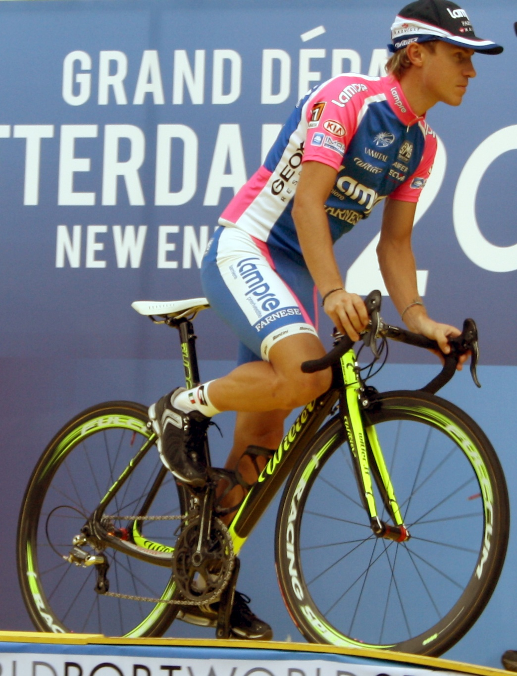 Damiano Cunego at the team presentation of the 2010 Tour de France in Rotterdam